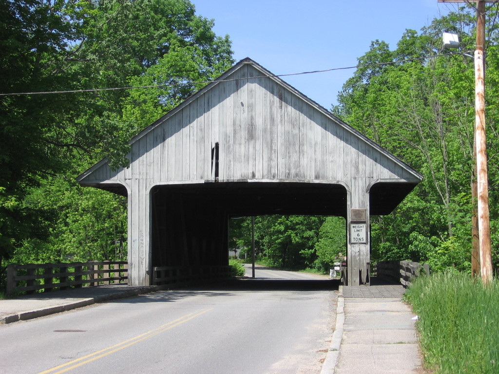 Covered bridge in Pepperell, Massachusetts prior to its 2010 restoration.